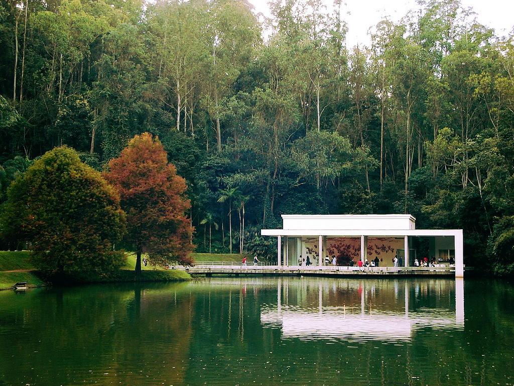 Inhotim [outdoor] museum and botanical park Brumadinho, MG - Brasil